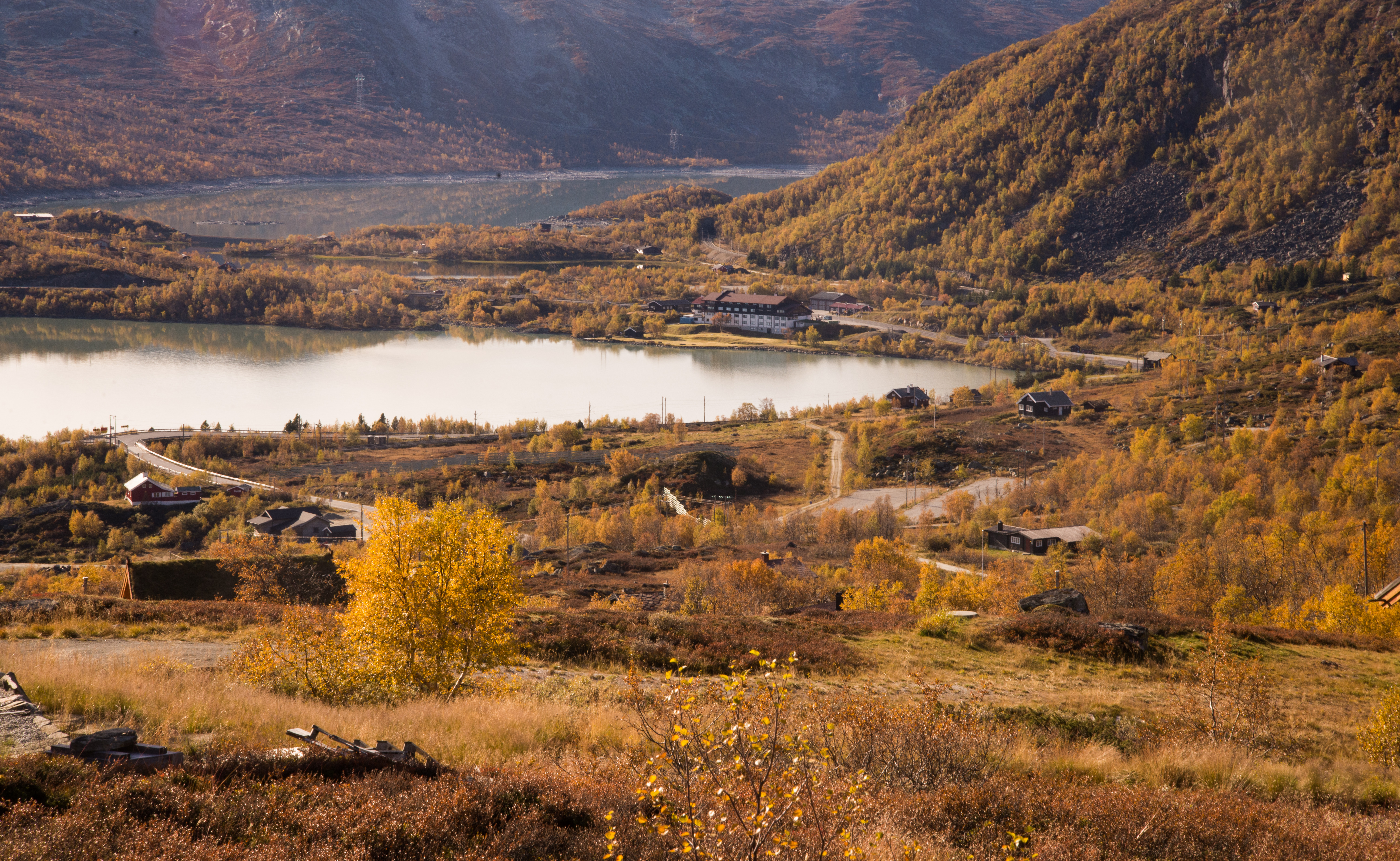 Vegmannsbu